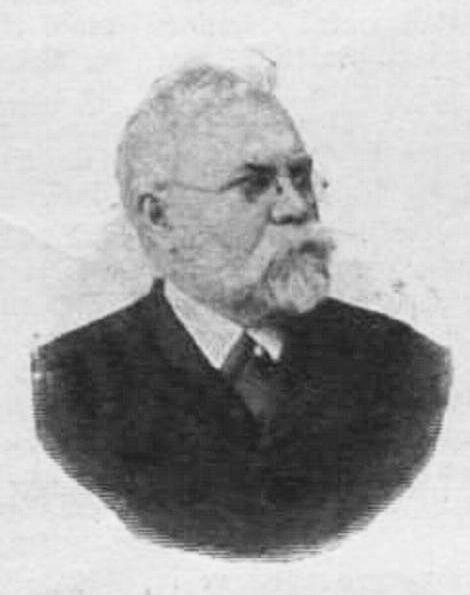 János Henrik Schwicker